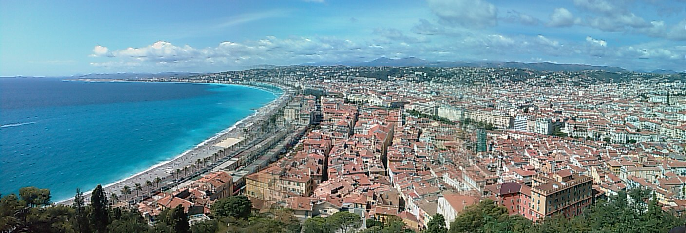 It was my first attempt to use panoramic function of my mobile camera. Honestly, it's not that bad. There is a bit blurry piece where two shots are "stitched" together. It took 3 photos to create the panorama. Photo taken with HTC TyTnII. ...yes, I didn't have D300 with me.